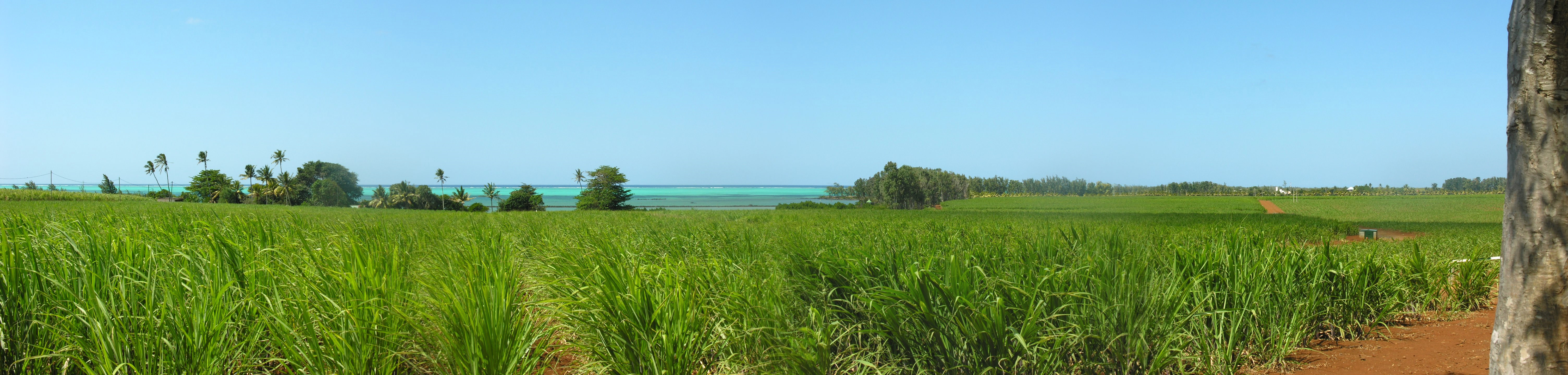 Mauritius, Sugar cane field near Roches Noires